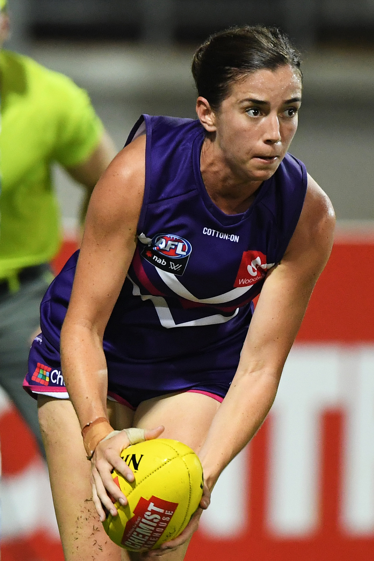 Laura Pugh of Fremantle during the 2019 AFL Women's practice match between the Adelaide Football Club and Fremantle Football Club at TIO Stadium on January 19, 2019 in Darwin Australia.